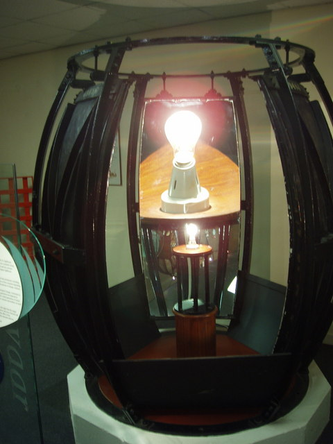 Concave mirror, Scottish Lighthouse Museum. The photo shows the reflected enlarged image of the lamp, seen above the smaller direct view of the lamp. The concave mirror is used to concentrate the light into a horizontal beam. It is not as efficient as the fresnel lens like 562670 used formerly with paraffin lamps, but doesn't have to be because the electric lamp is more powerful.